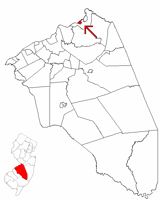 Map of Burlington County highlighting Fieldsboro